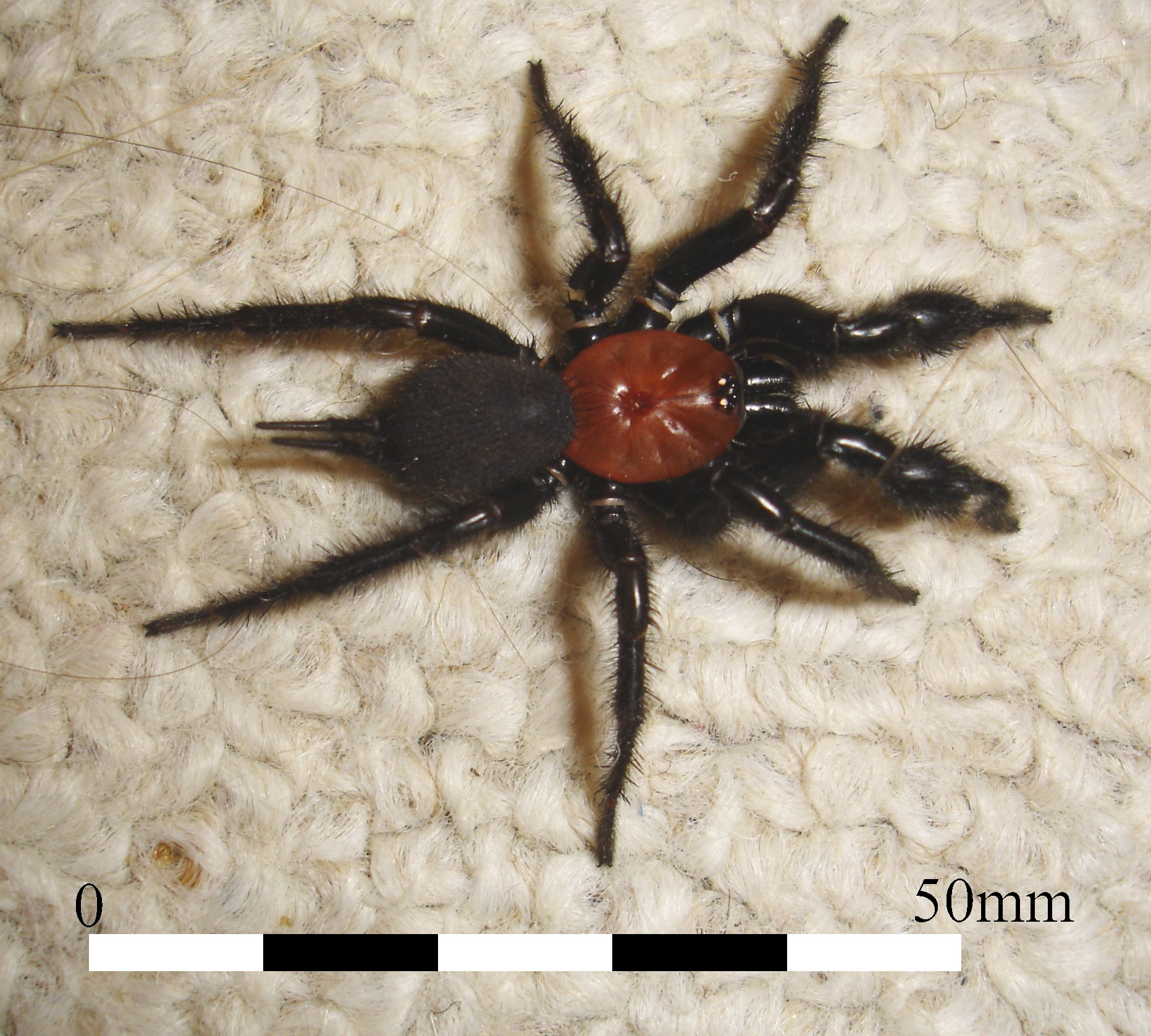 New Zealand Black Tunnelweb spider (Porrhothele antipodiana).